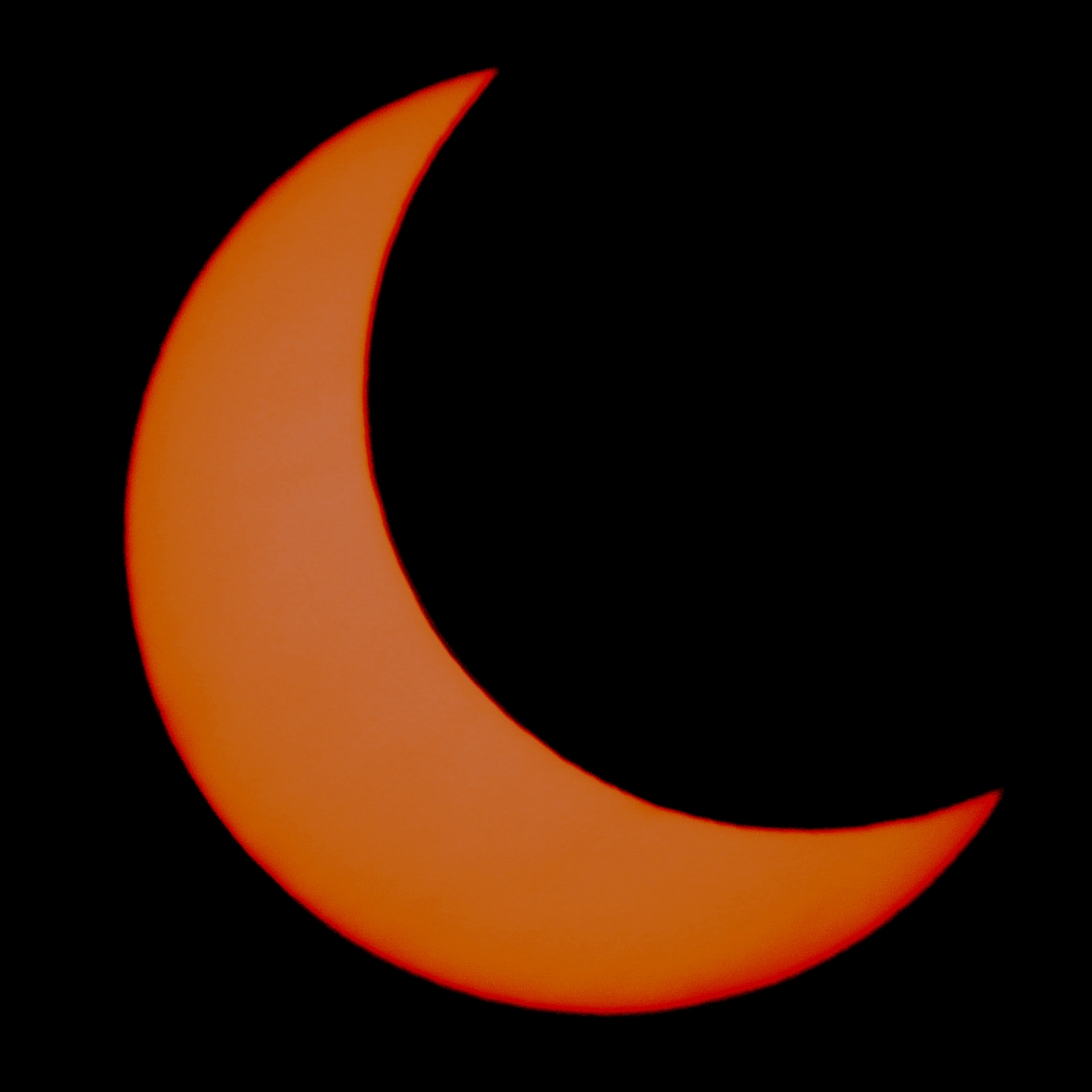 Solar Eclipse from Riversdale South Africa by Wim Filmalter